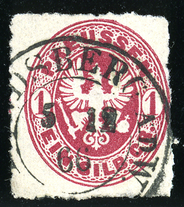 Stamp of Prussia, 1SGr, cancelled at LANDSBERG an der Warthe (Brandenburg) in 1866, now Poland (Gorzow Wielkopolski).